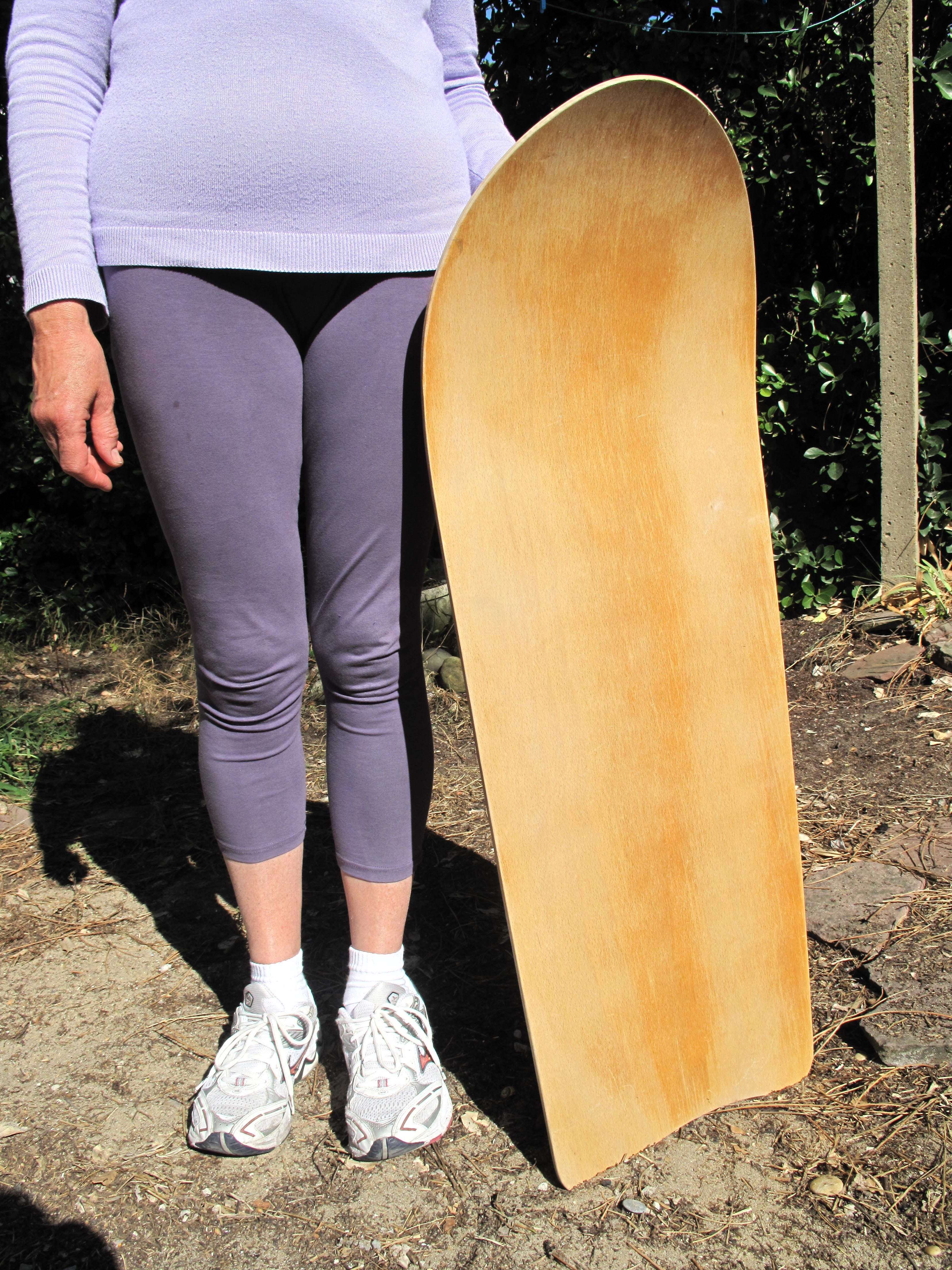 Bellyboard in plywood : Biarritz, France, 1970